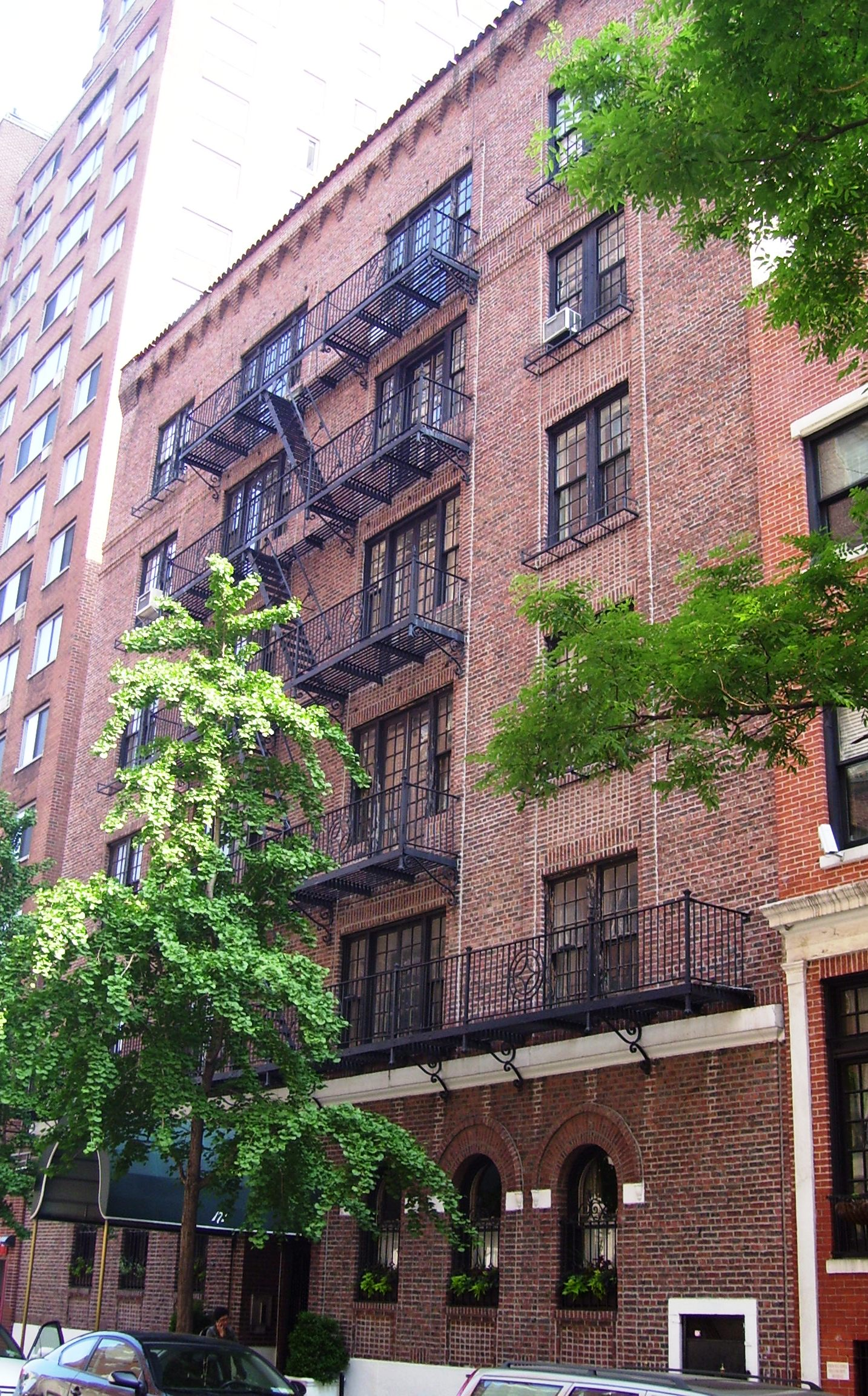 171 West 12th Street (169-171) between Sixth and Seventh Avenues in the Greenwich Village neighborhood of Manhattan, New York Cit was built in 1922 and was designed by Emilio Levy. It is located in the Greenwich Village Historic District. (Source: "NYCLPC Greenwich Village Historic District Designation Report, volume 1")